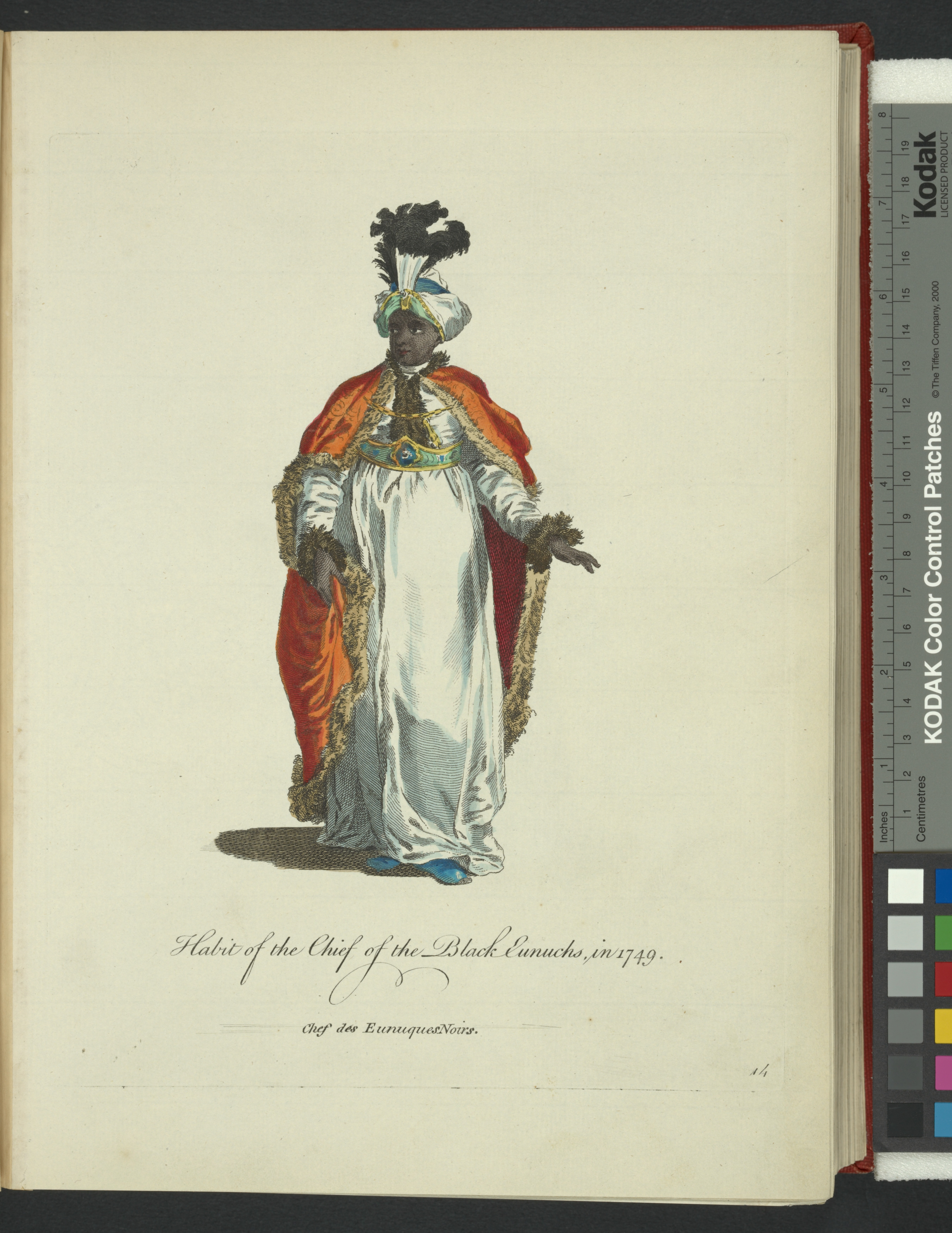 Habit of the chief of the black eunuchs in 1749. Chef des eunuques noirs.